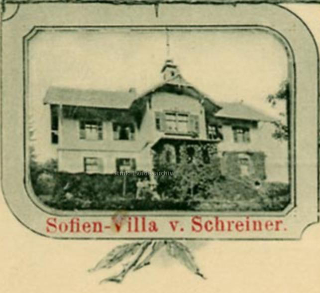 Castle Gasselberg